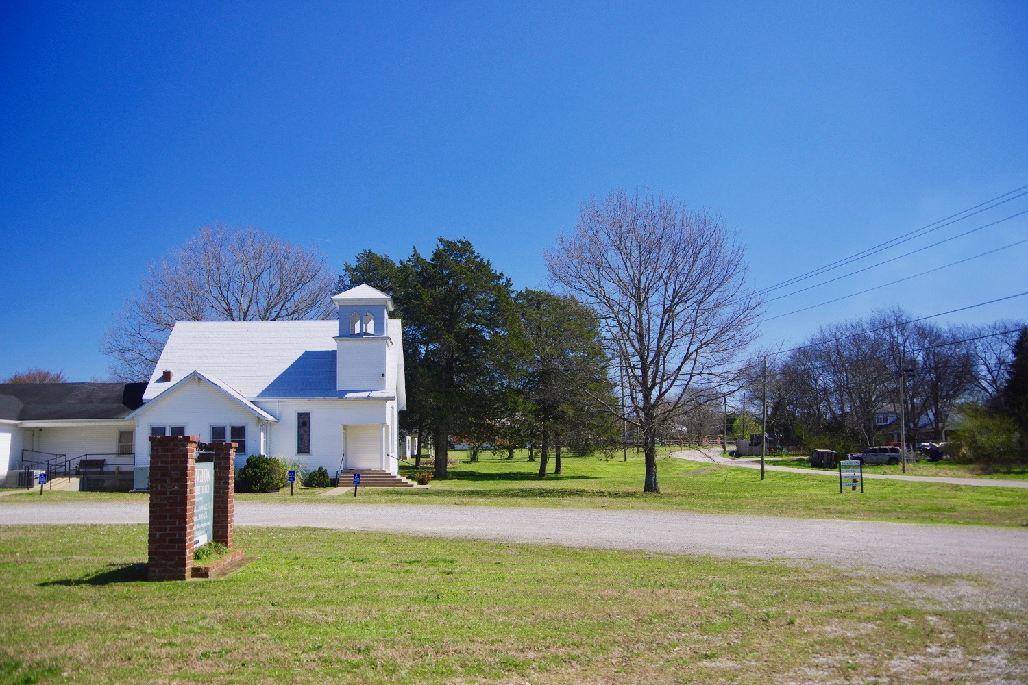 Farmington United Methodist Church in Farmington, Tennessee, United States.